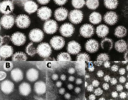 Electron Micrographs of viruses that cause gastroenteritis in humans. A = Rotavirus (Rotavirus), B = Adenovirus (Adenoviridae), C = Norovirus (Norovirus) and D = Astrovirus (Astroviridae). They are shown at the same magnification of approximately x 200,000